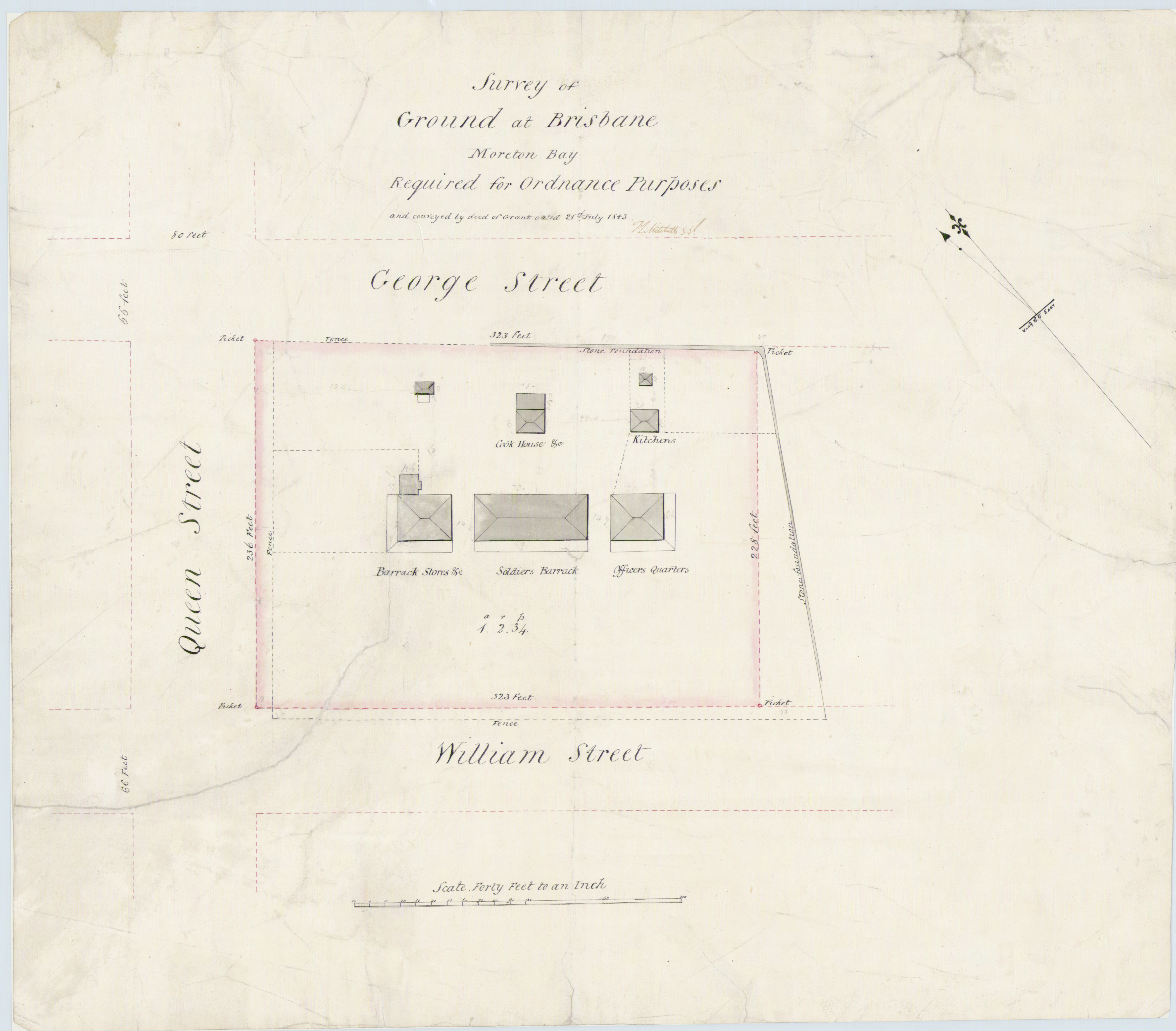 Survey for Soldiers Barracks, Brisbane, 1843